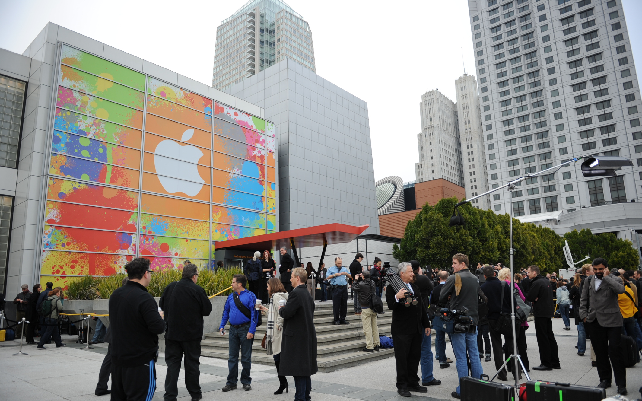 The Yerba Buena Center for the Arts decorated for the Apple iPad event.